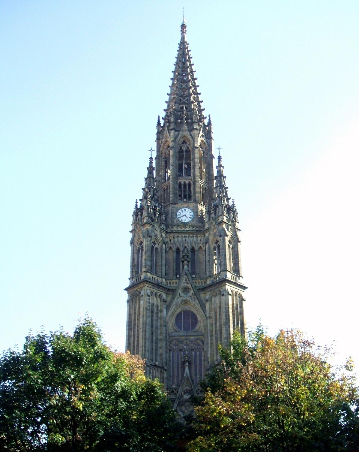 Catedral del Buen Pastor de San Sebastián (Guipúzcoa, País Vasco, España)